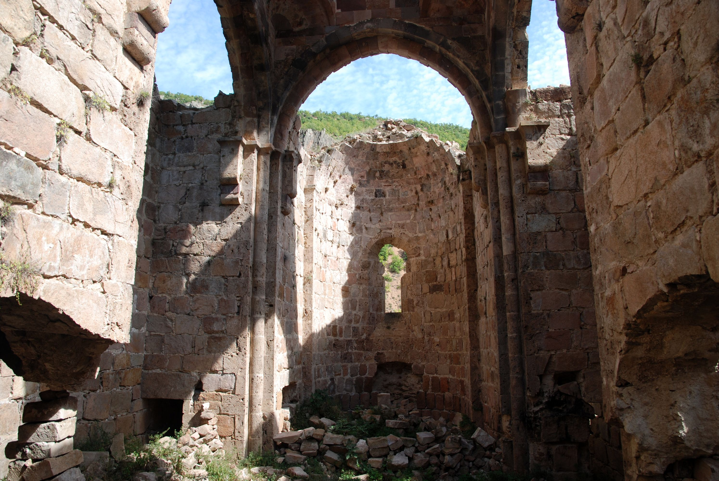 Porta, or Khandzta, Georgian monastery in Artvin province, church apse